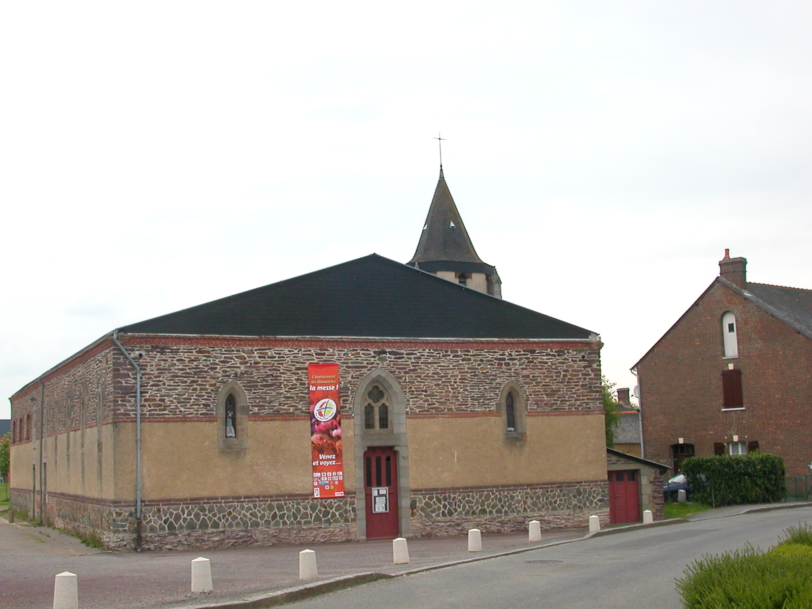 Church of Pont-Péan